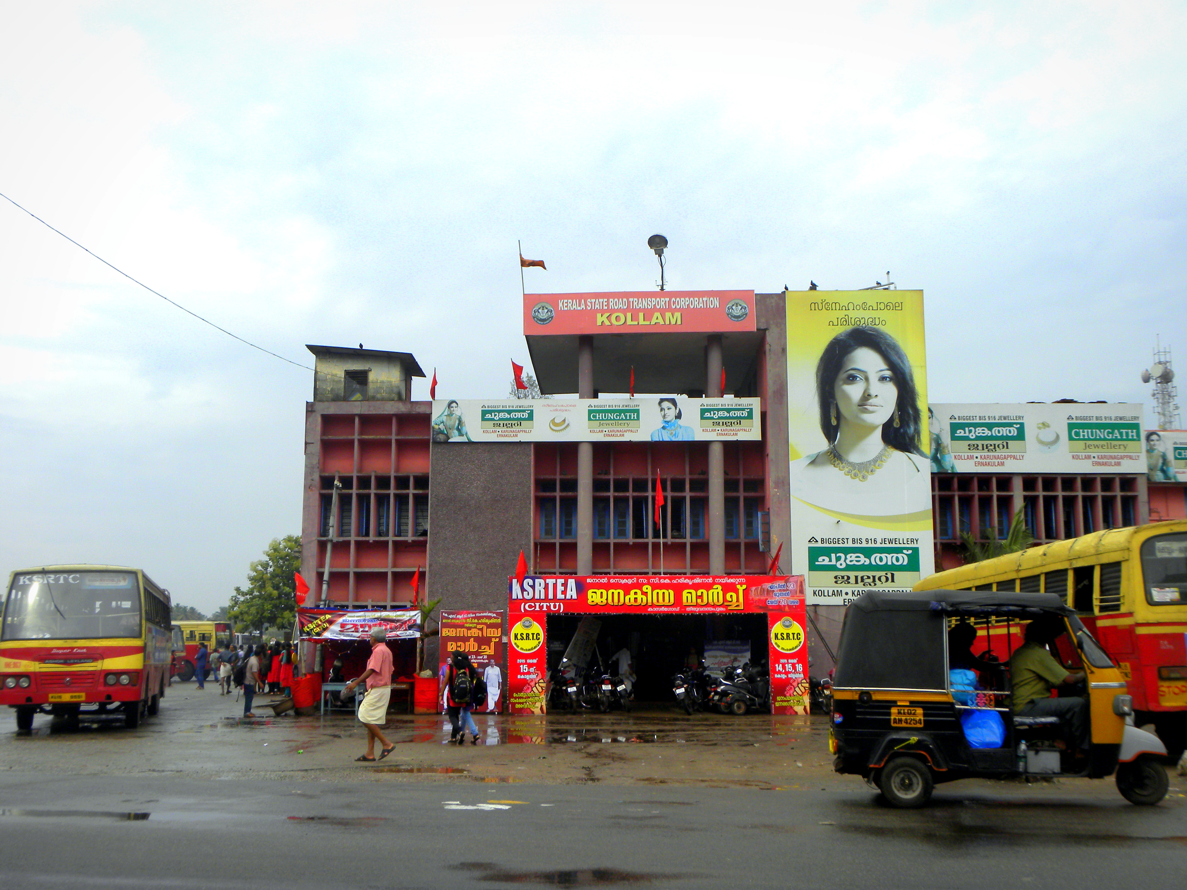 Kollam KSRTC bus station is one of the major transport hubs in Kerala